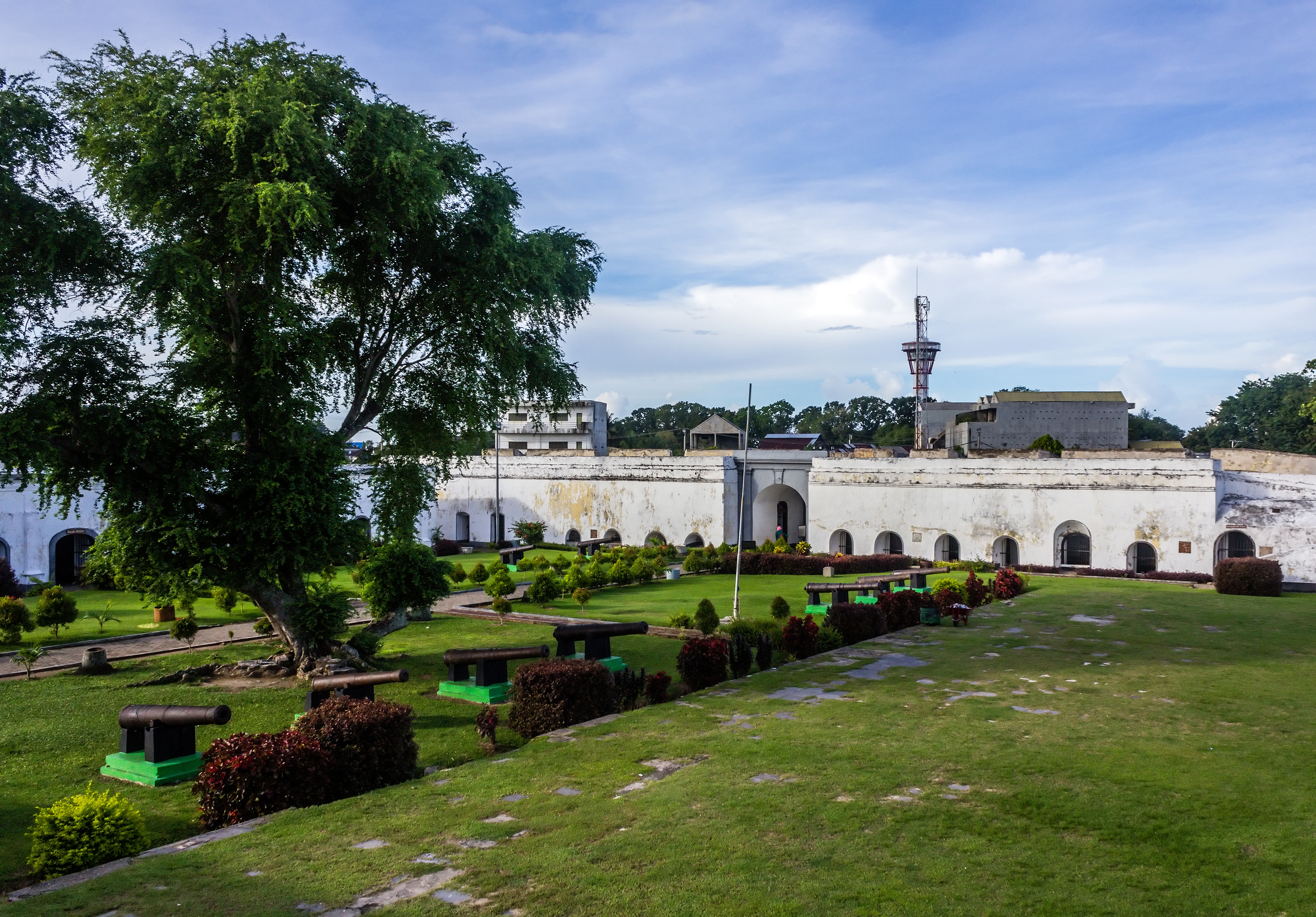 Interior of north-east gate, Fort Marlborough, 2015-04-19